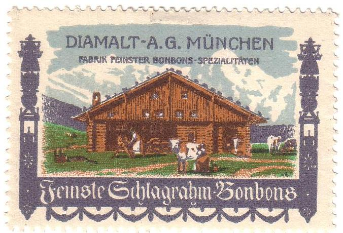 Stamp of the company diamalt